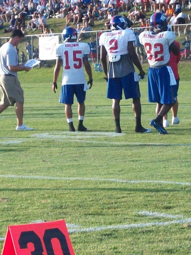 Manningham at training camp.